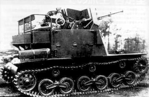 Type 98 Ho-Ki, a self-propelled anti-aircraft gun with twin Type 98 20-mm-guns of the Imperial Japanese Army.